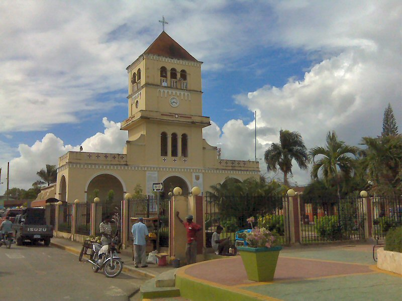 Dominican Republic, Bayaguana Sanctuary